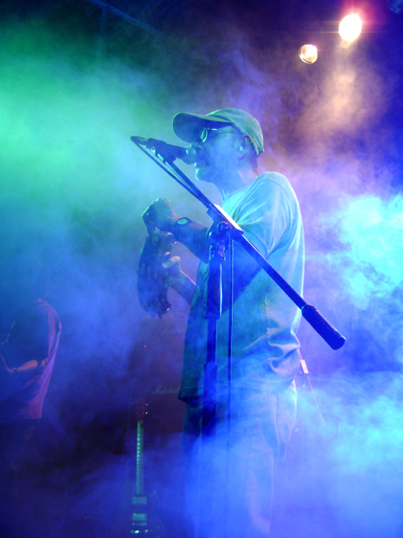 Luis Garcia a.k.a. "Wicho" of the band Mar de Copas